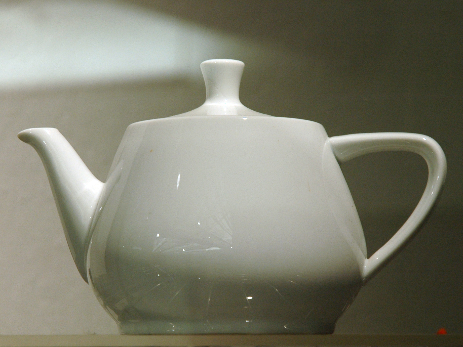 The original Utah teapot, currently on display at the Computer History Museum in Mountain View, California.